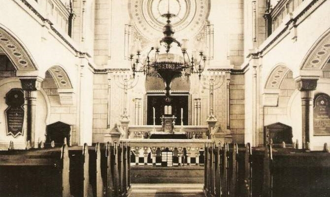 Synagogue of Rosenberg (now Olesno in Poland), built in 1889 and destroyed during Kristal Nacht in 1938.